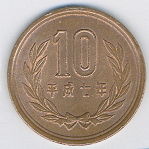 10 Yen coin of Japan. Inscription: 10 (value of coin in yen). 平成七年 (The year Heisei 7). Design: Evergreen tree. I scanned this coin.